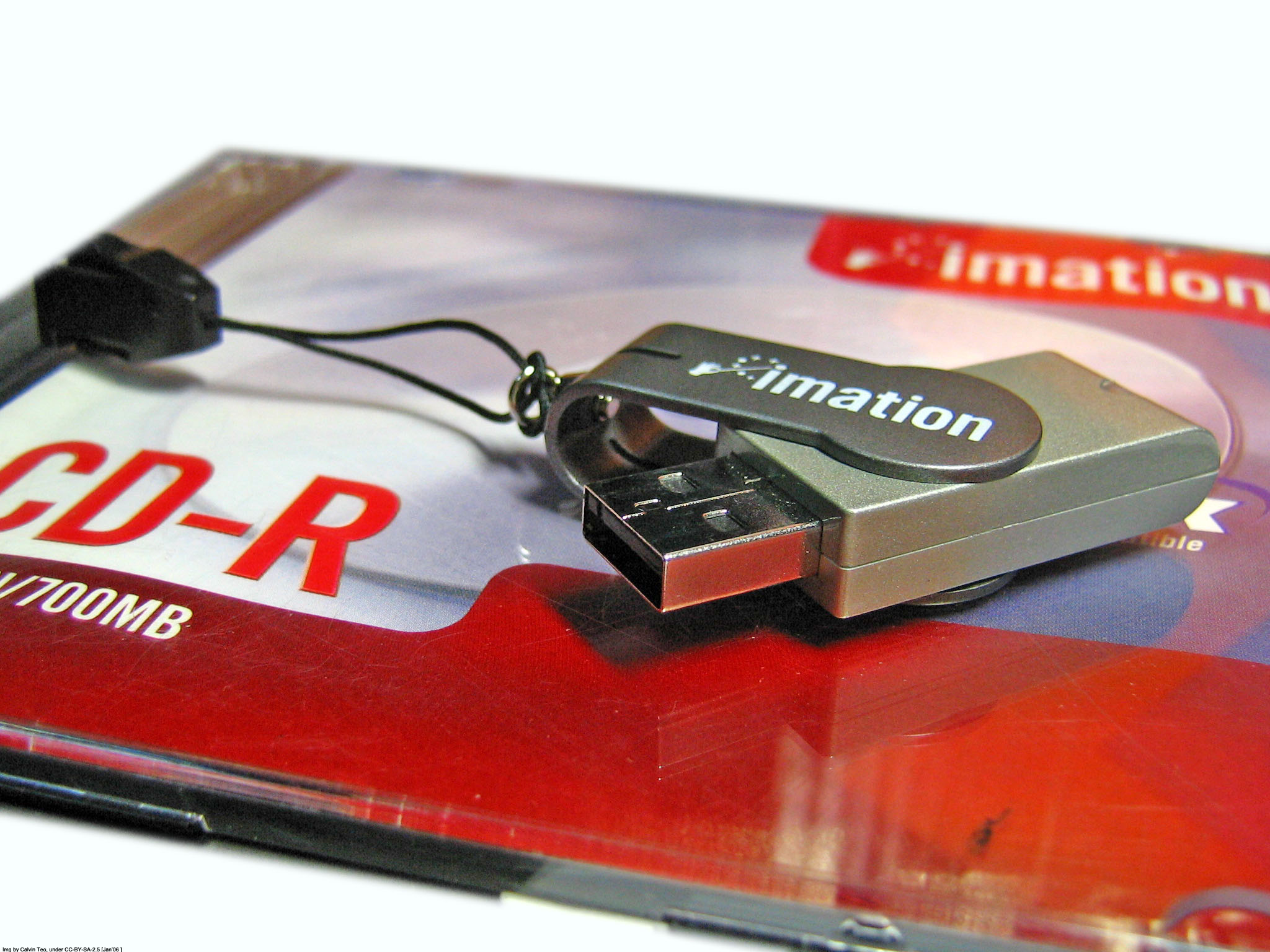 A couple of Imation products: An Imation 256MB USB flash drive and 700MB CD-R.